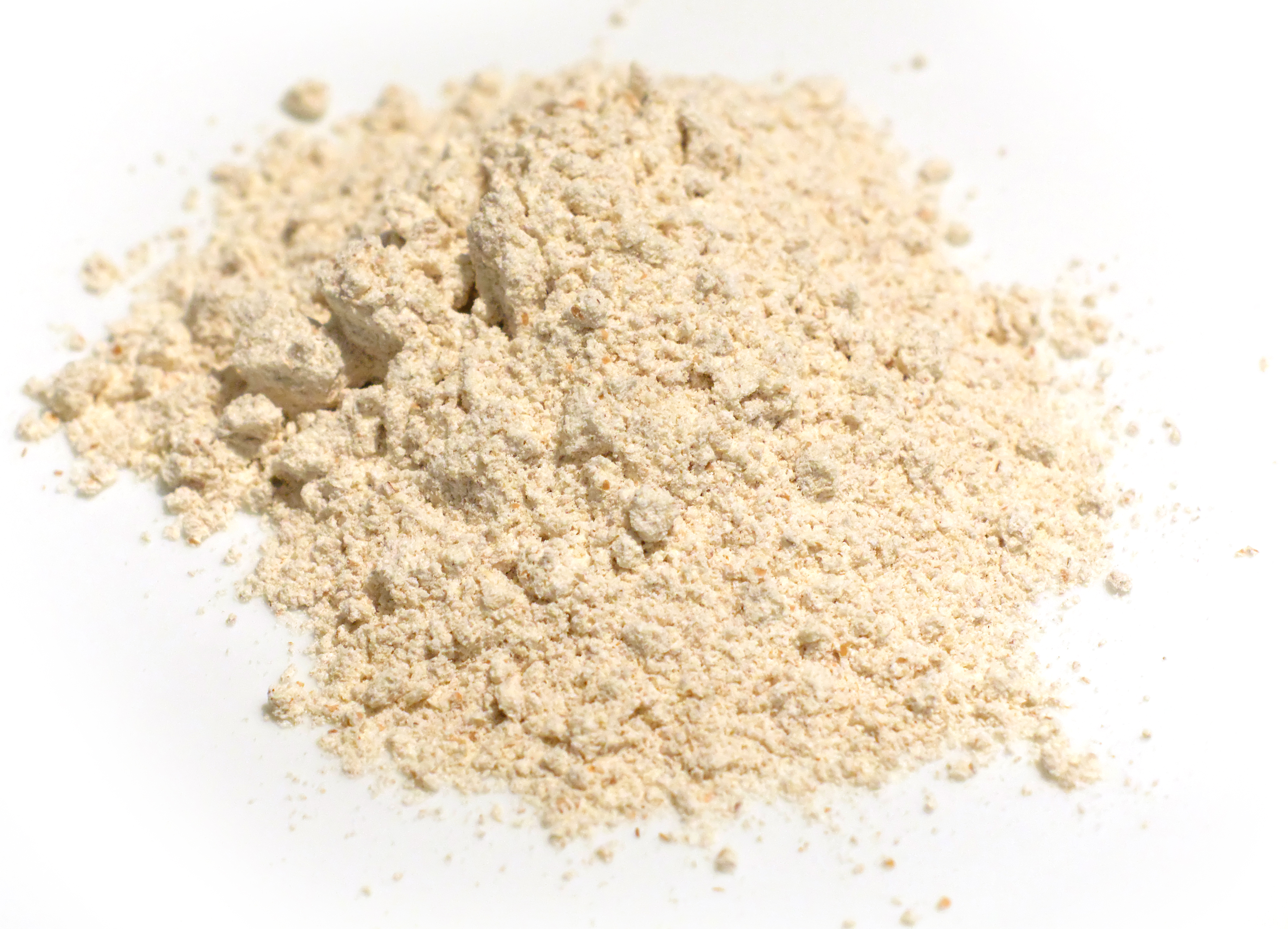 Spelt wholemeal flour. Origin: Asturias, Northern Spain